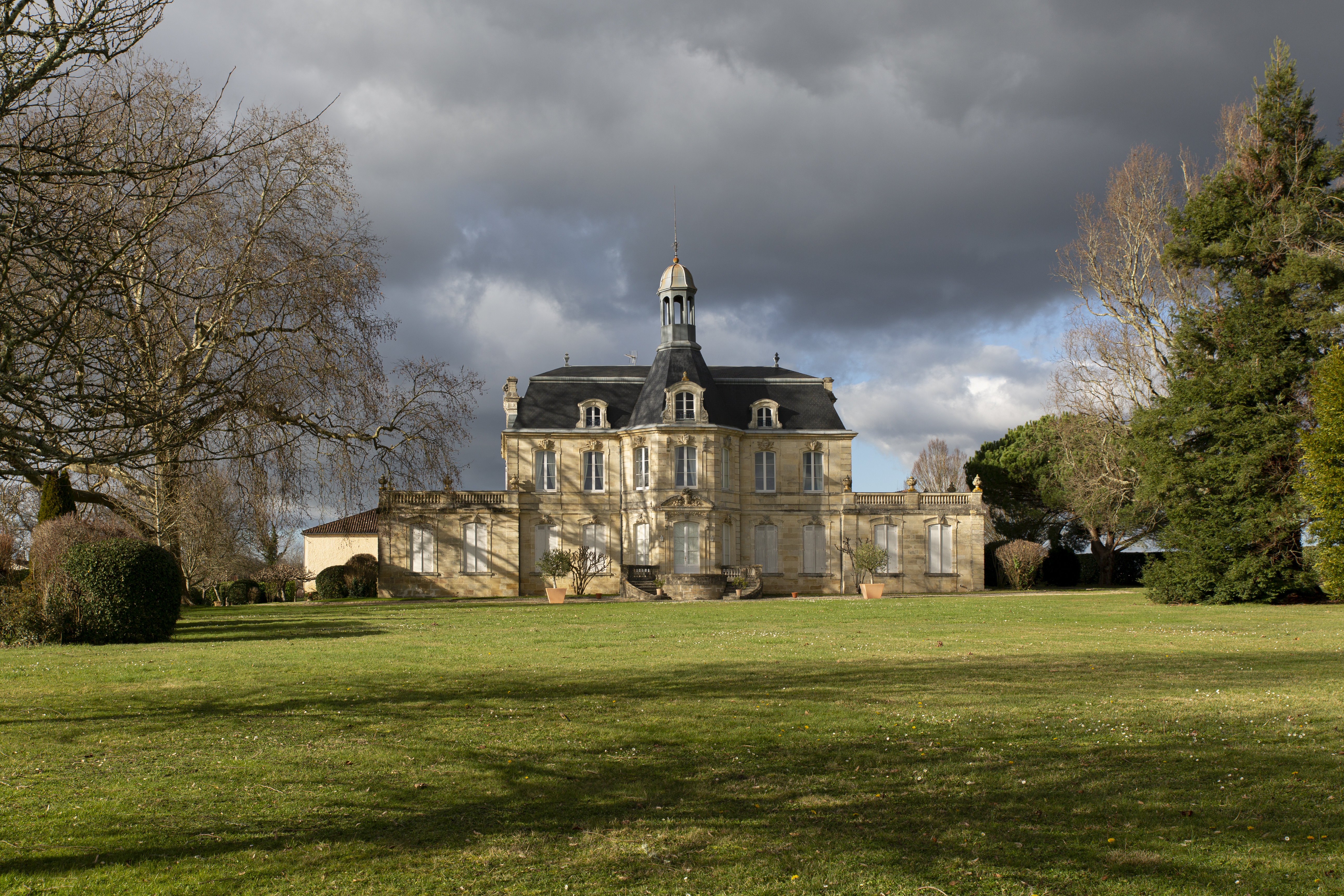 Château Fonréau (gasc. Casteth Houn Reau)